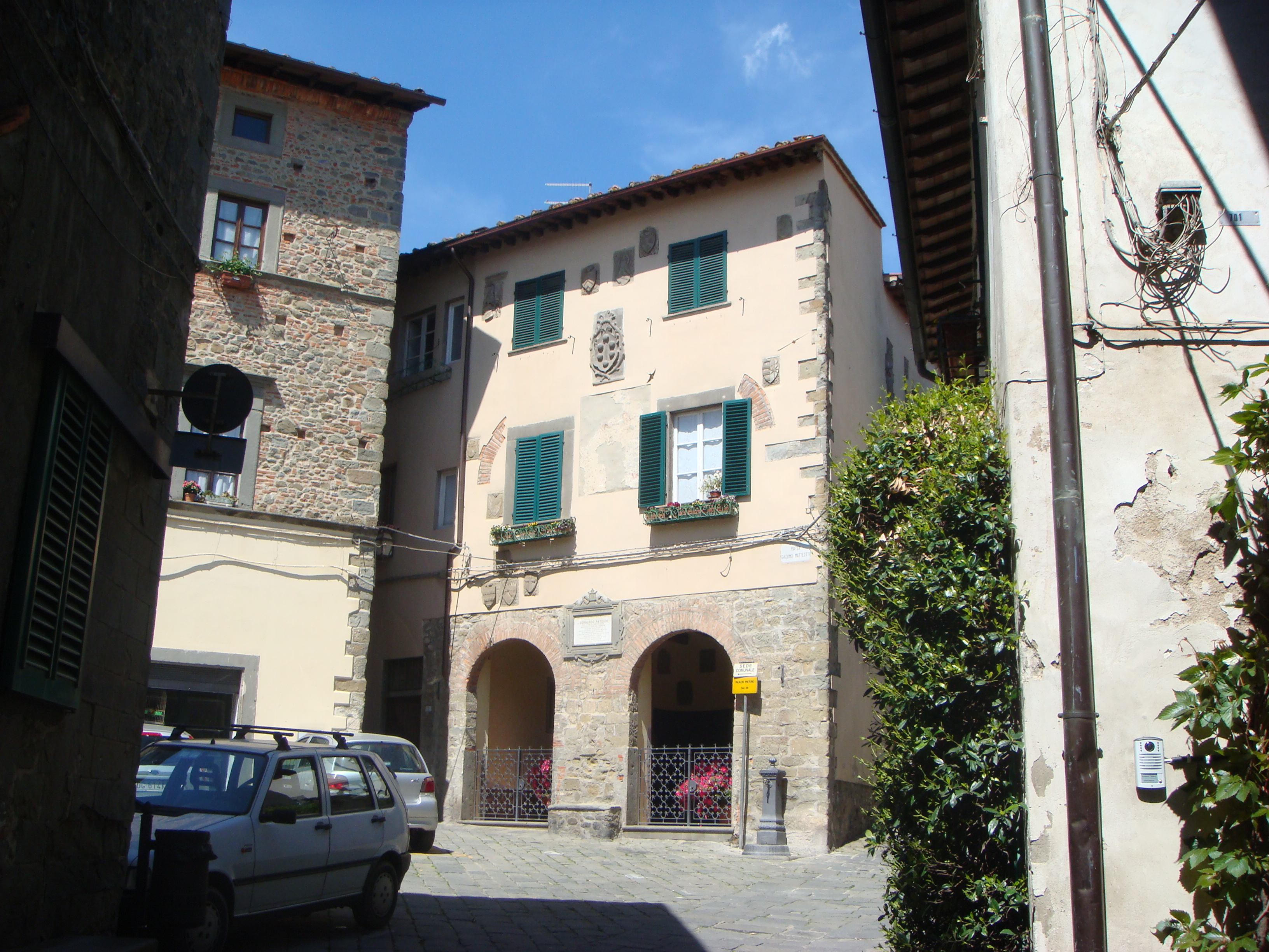 View of Palazzo Pretorio in Massa